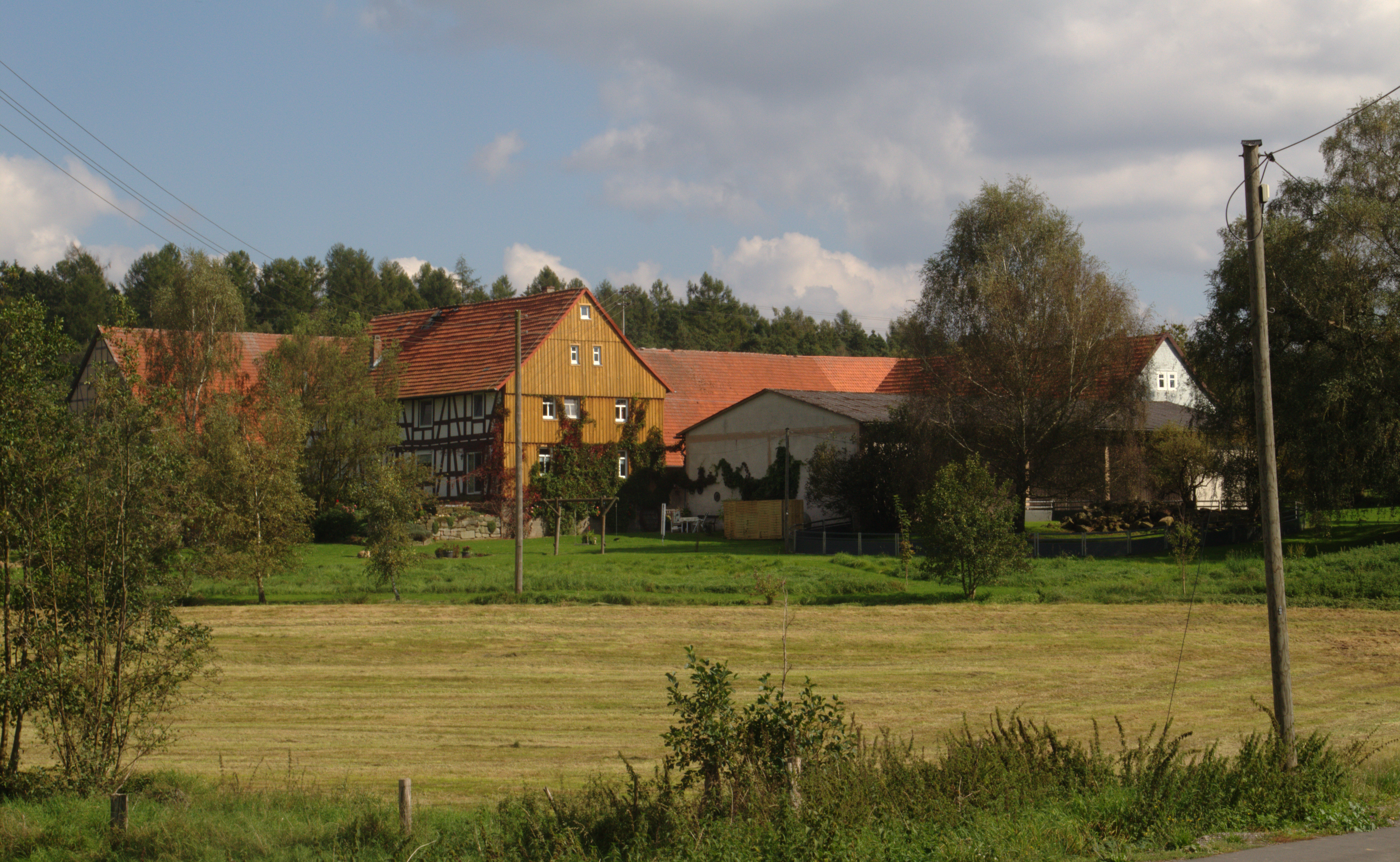 Half-timbered buildings in Hattendorf Berfhof 2, Alsfeld, Hesse, Germany